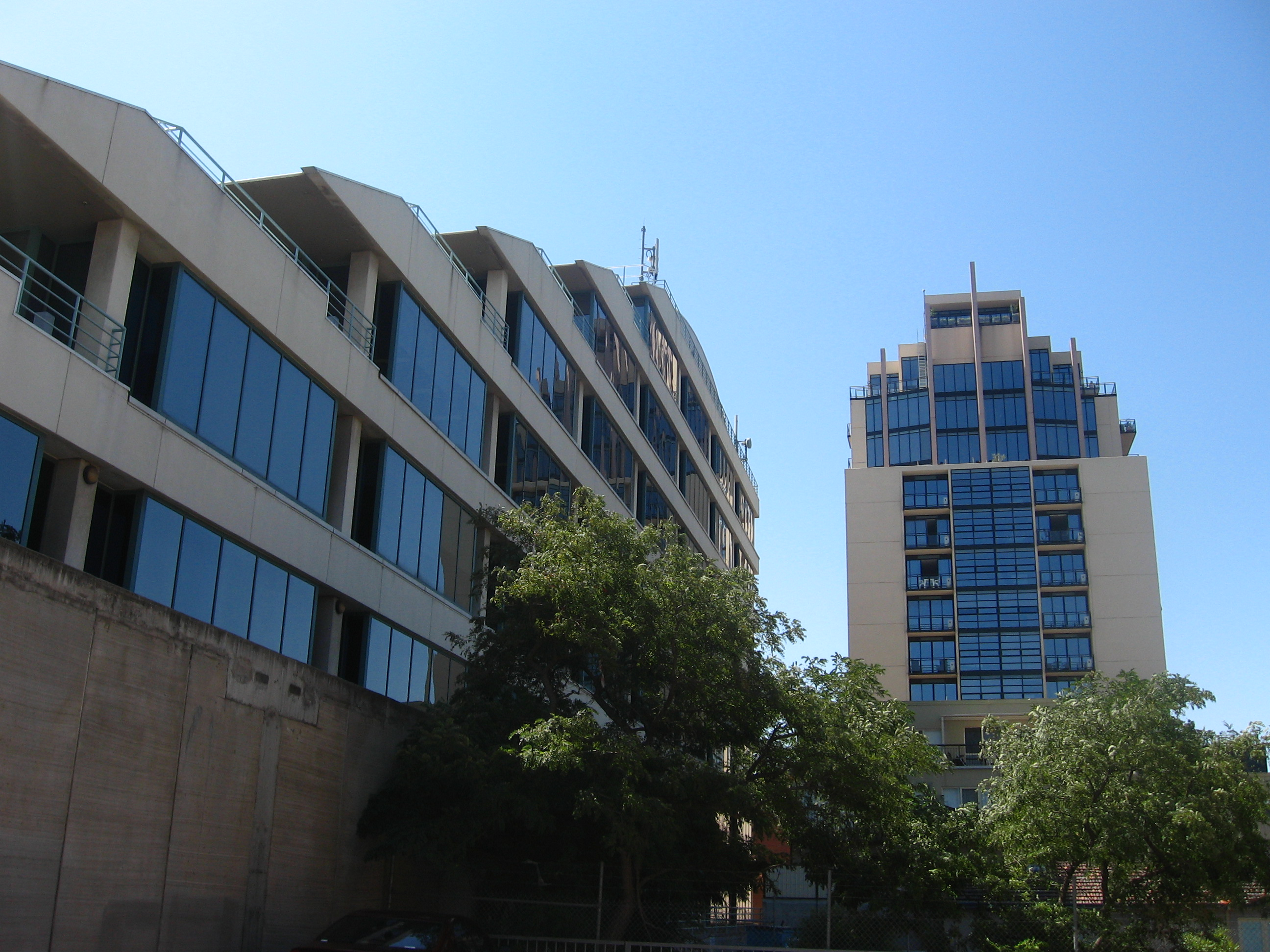 Australian Tax Office and Mondo Apartments